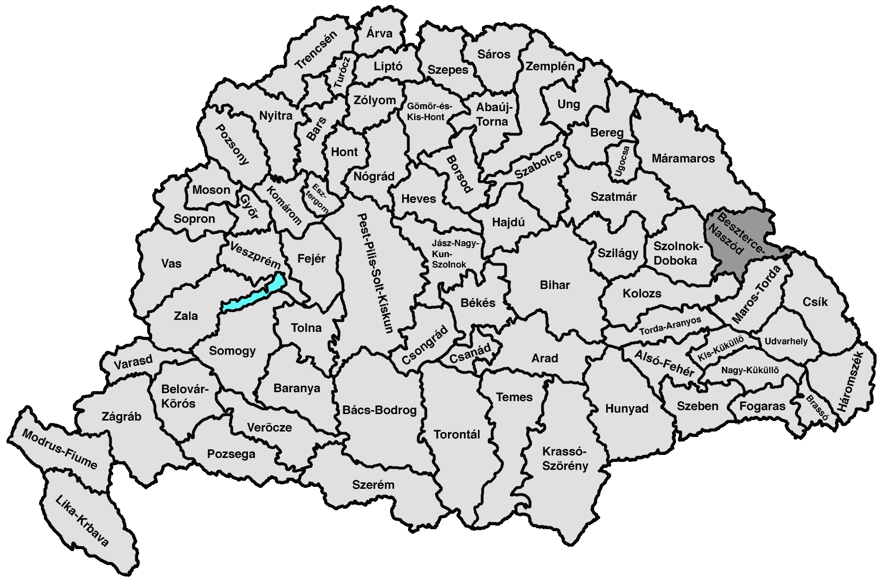 own edit of Image:Zala.png